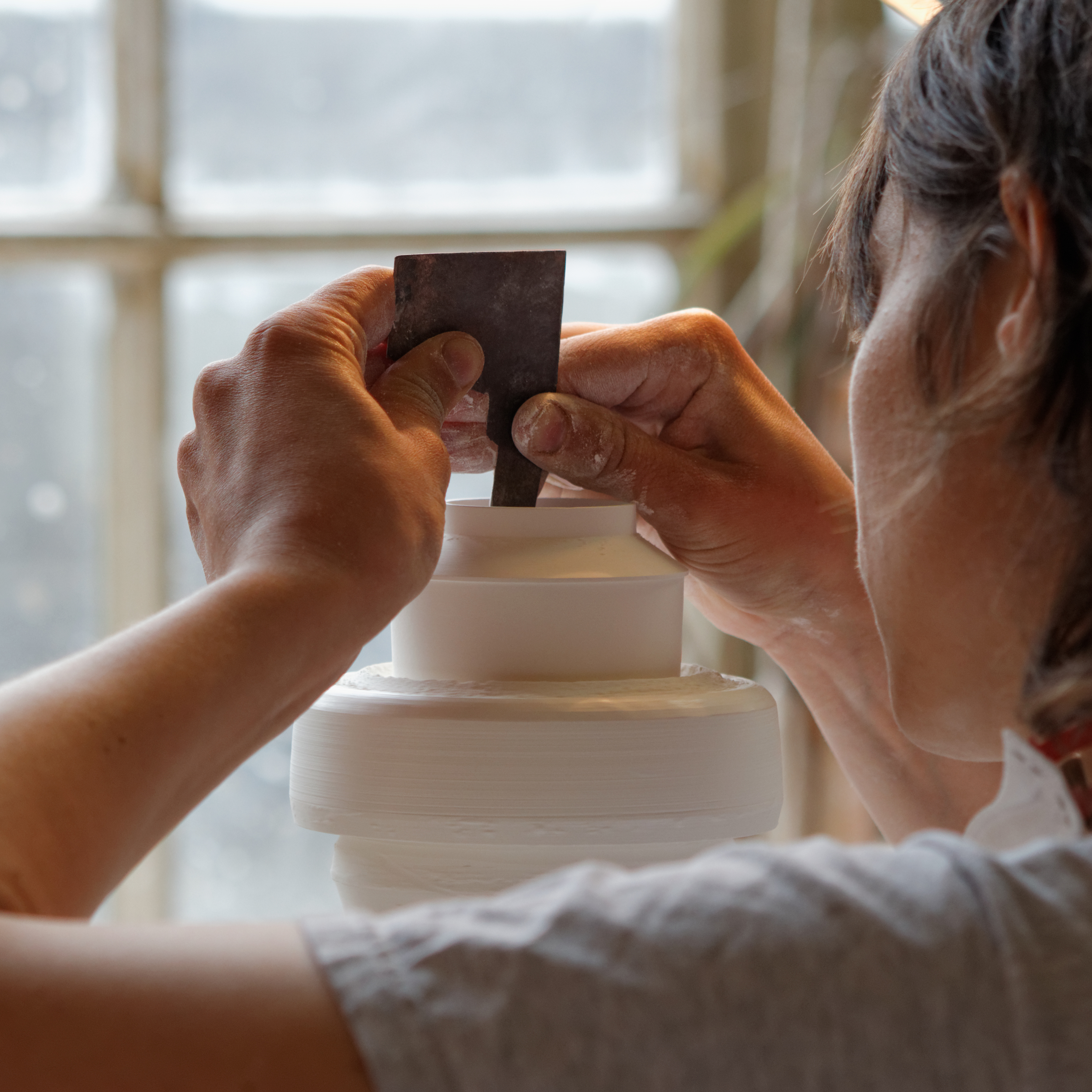 Grand Atelier of the manufacture nationale de Sèvres.